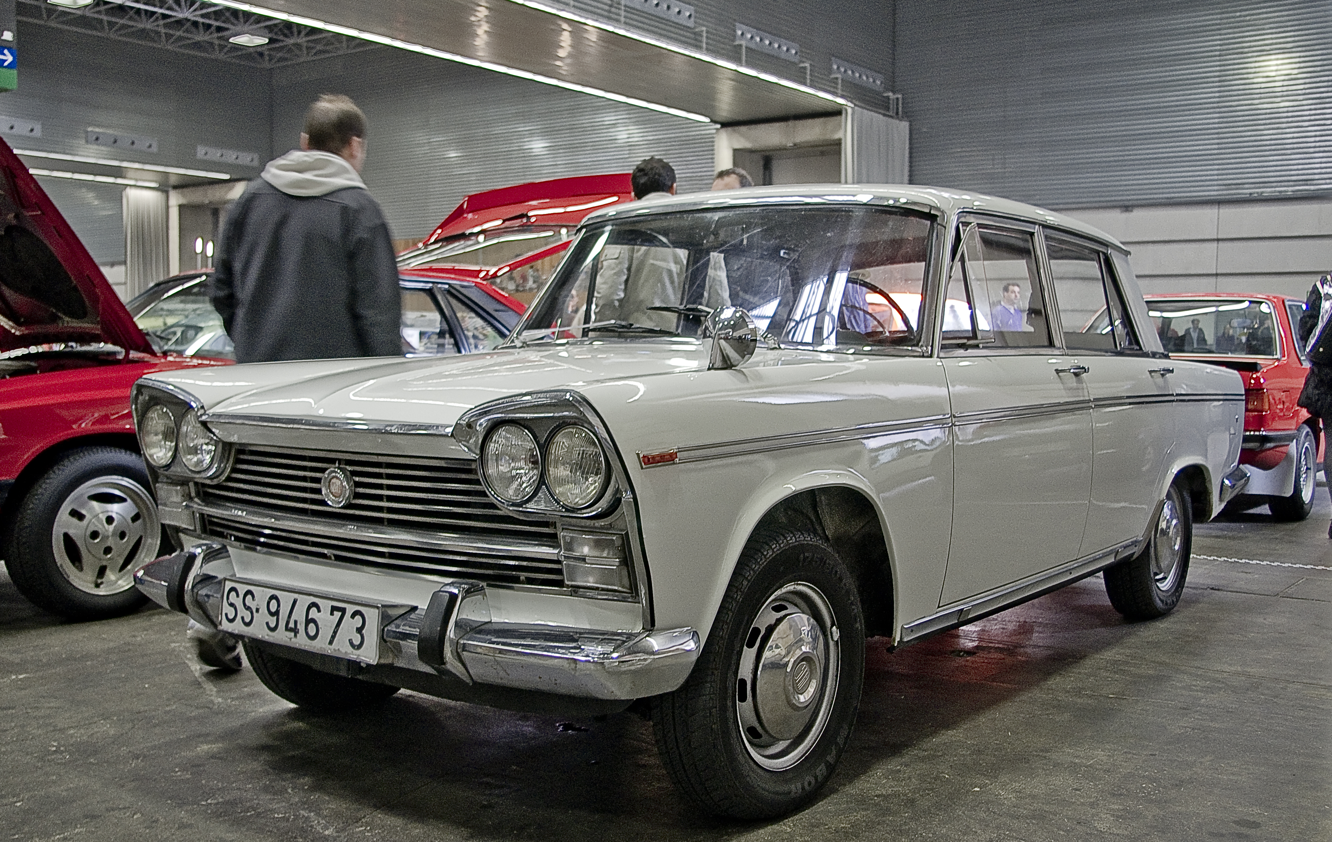 1970 Seat 1500 'bifaro'